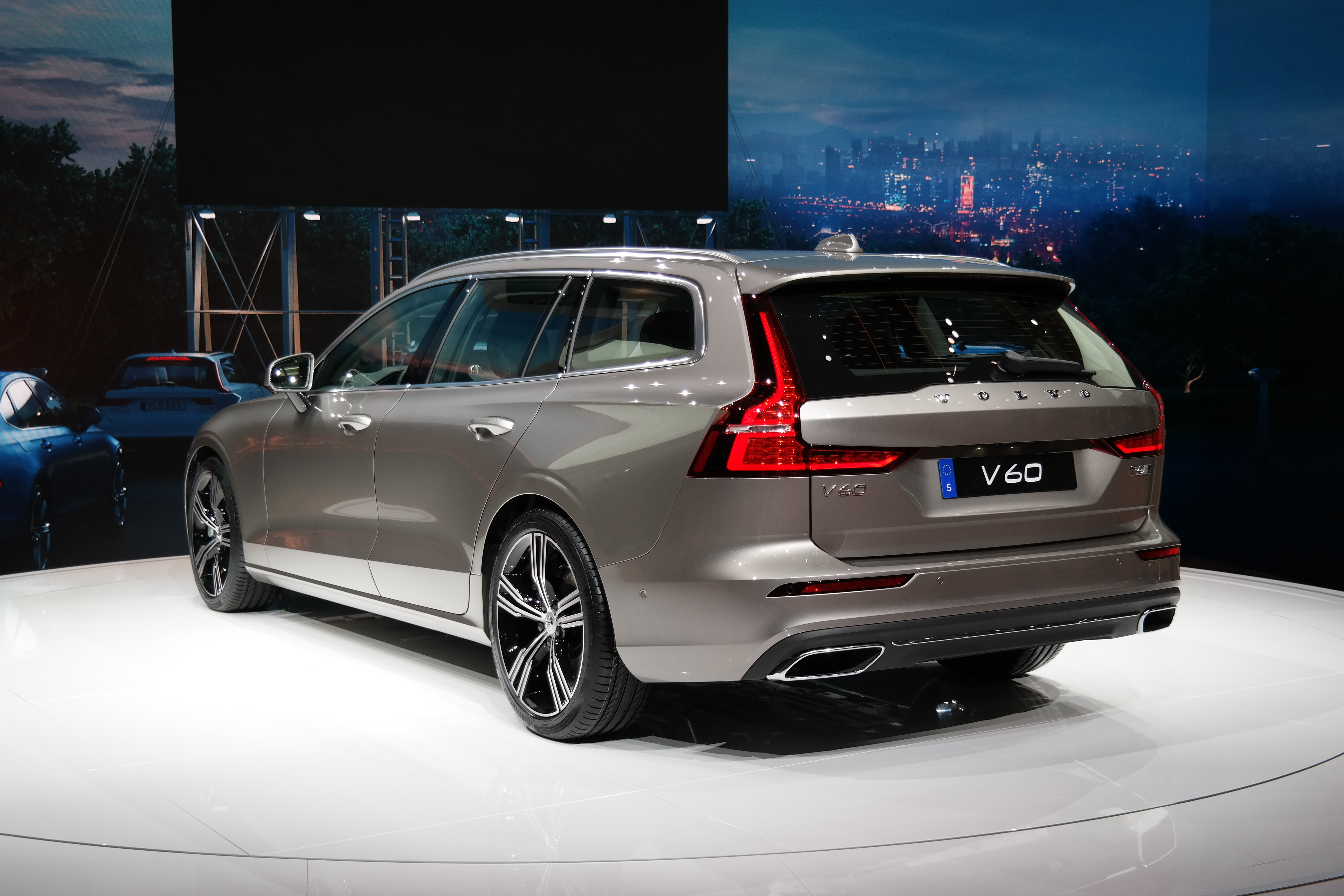 Geneva Motor Show 2018 (photo taken on the first press day)